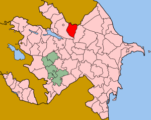 Map of Azerbaijan showing Oguz (Oğuz) rayon.